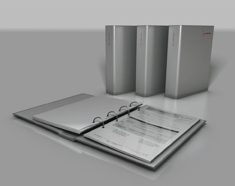 Pharma Qualification and Validation Documents